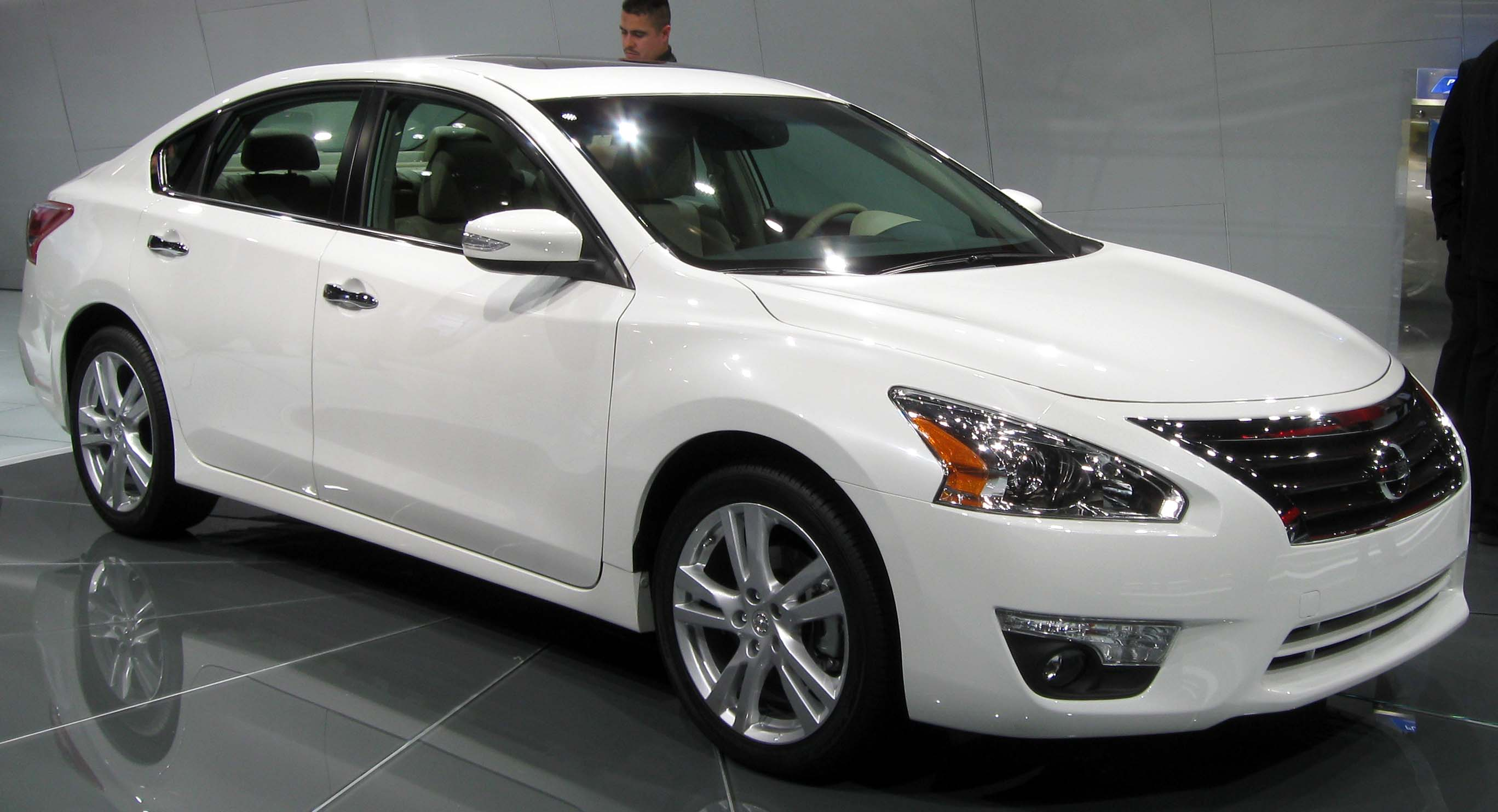 2013 Nissan Altima photographed at the 2012 New York International Auto Show.